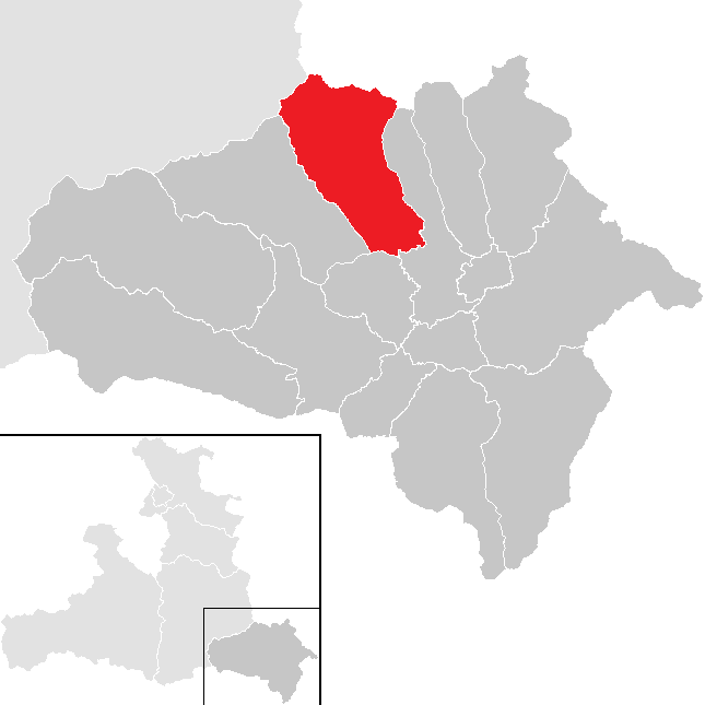 District Tamsweg